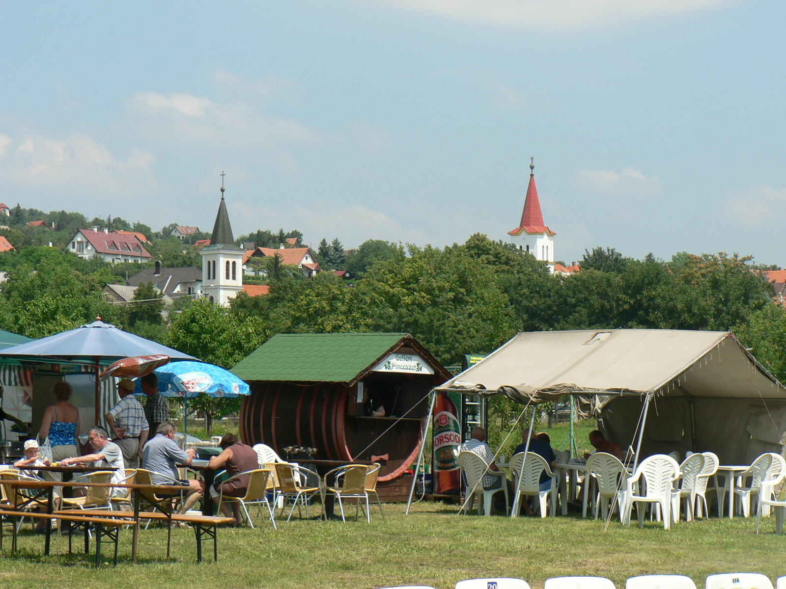 Pillanatkép a lovasi falunapokról (2013)